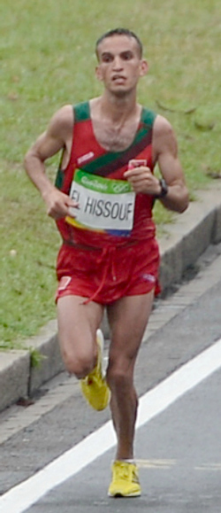 Rio de Janeiro - Sob chuva forte atletas da maratona masculina passam pelo aterro do Flamengo (Tânia Rêgo/Agência Brasil)